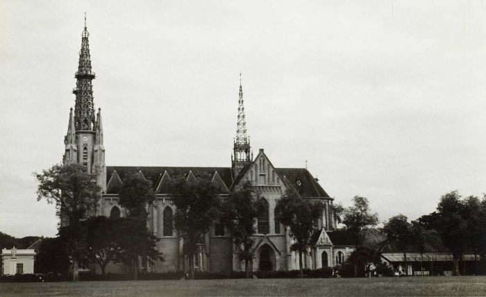 The cathedral at the Lapangan Banteng, Djakarta